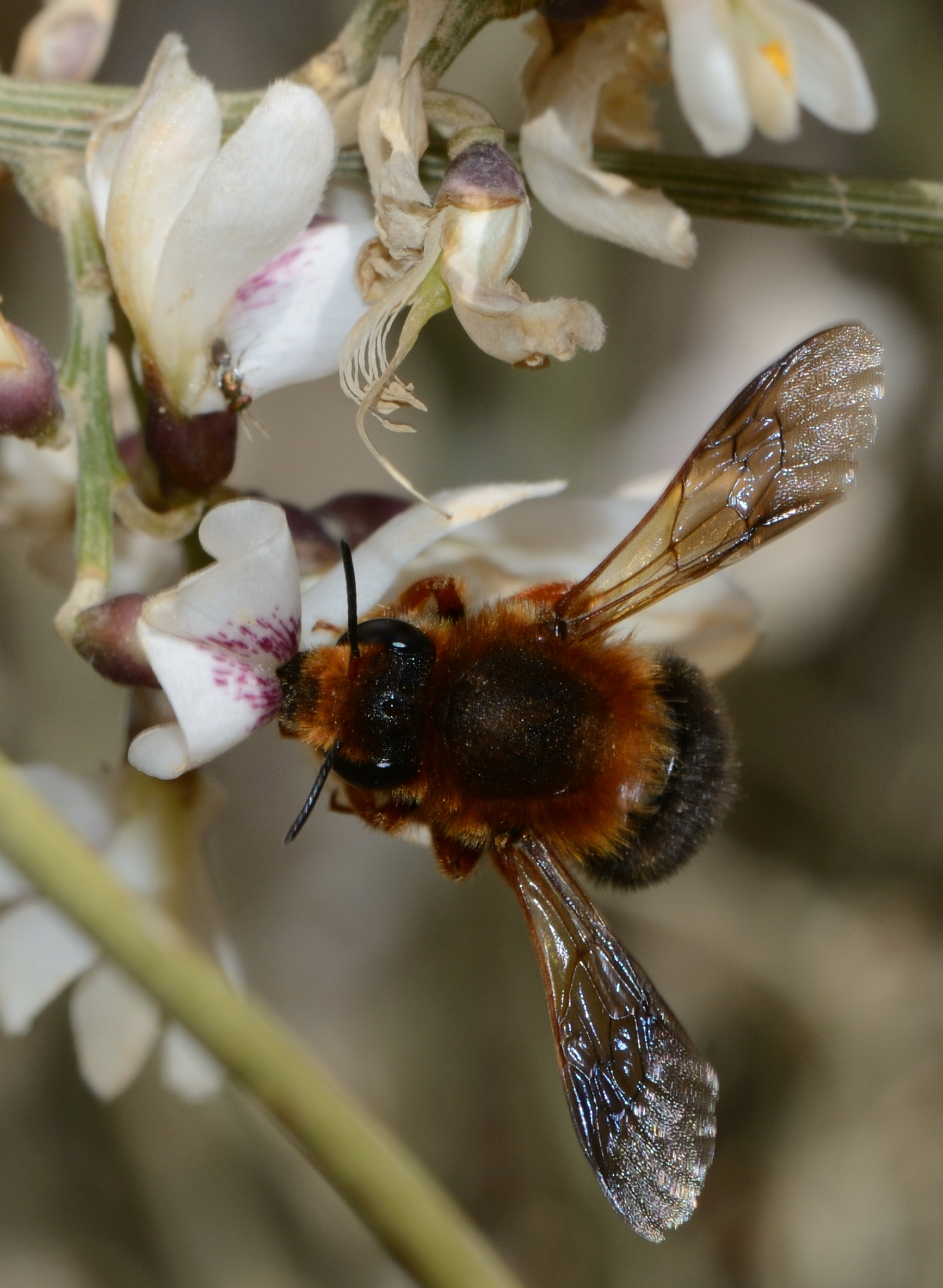 Megachile (Chalicodoma) sicula, female foraging on Retama raetam, Yeroham Iris Nature Reserve, Northern Negev, Israel, March 18, 2012.